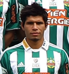 Tanju Kayhan.